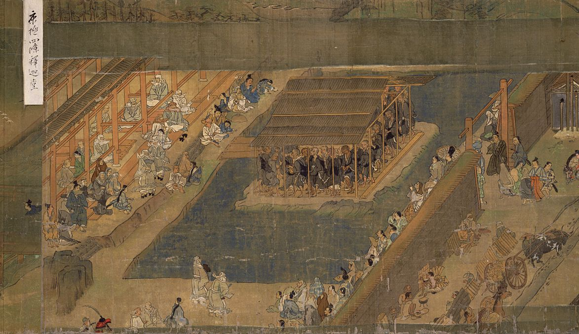 Illustrated Biography of the Priest Ippen： Volume 7 (絹本著色一遍上人絵伝, kenpon choshoku ippen shōnin eden). This is part of the handscroll located at the Tokyo National Museum in Tokyo. Color on silk. Size of the full scroll: 37.8 cm x 802.0 cm. The scroll has been designated as National Treasure of Japan in the category paintings.